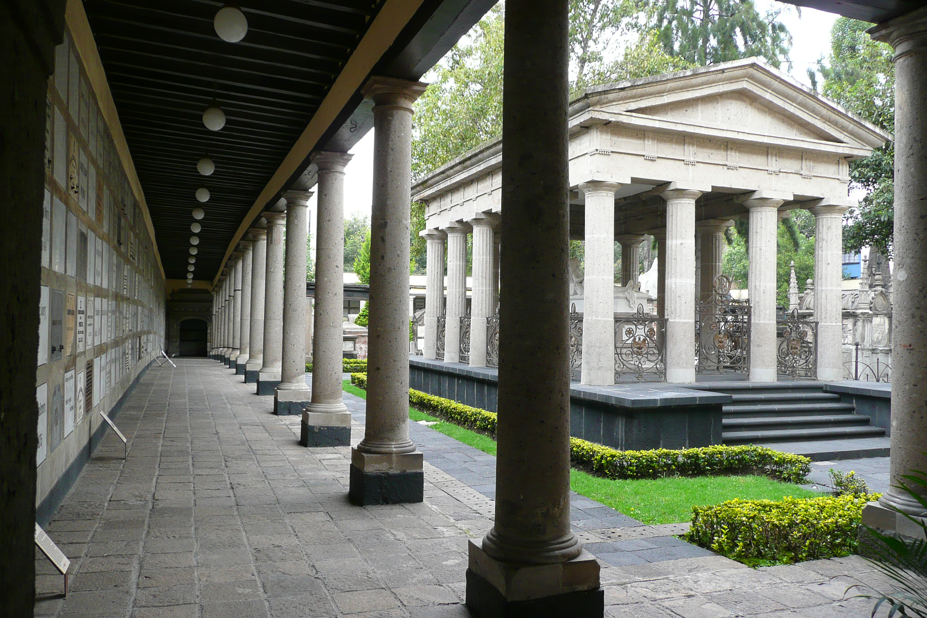 View the halls of the San Fernando cemetery and the grave of Benito Juarez in Mexico City.